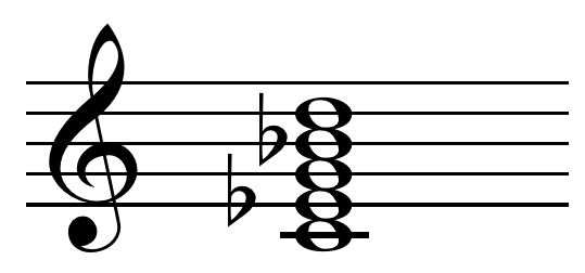 C minor 9th chord. Created by Hyacinth (talk) 16:51, 6 July 2009 using Sibelius 5.